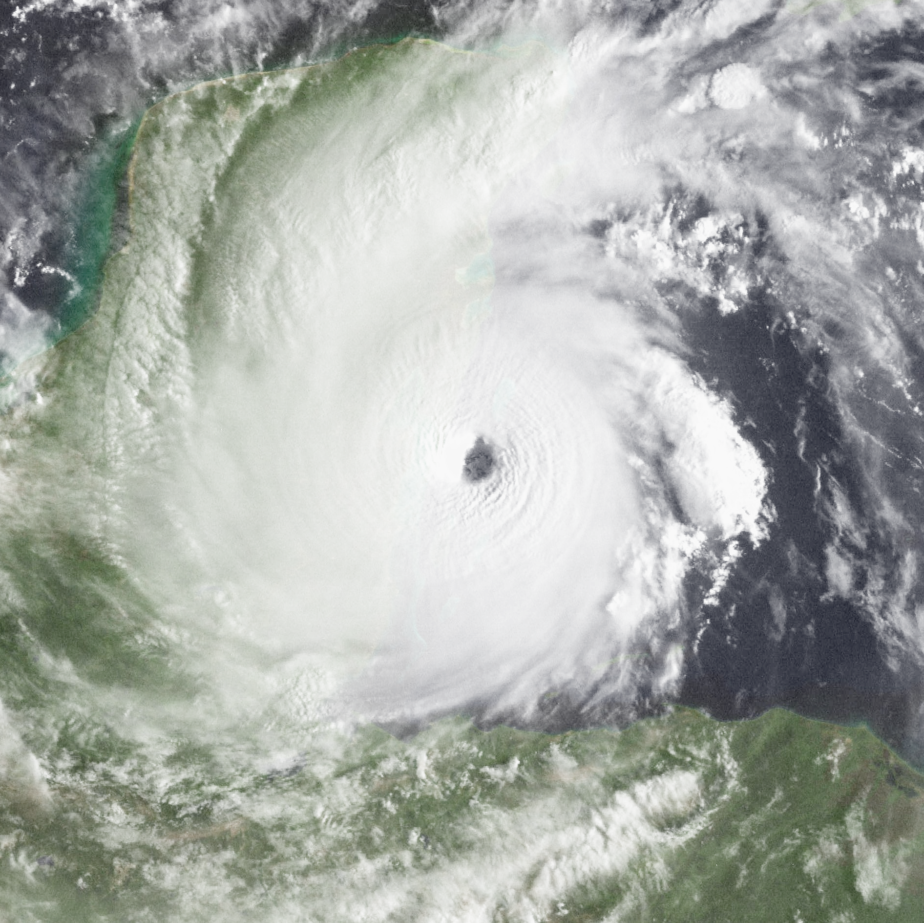 Hurricane Keith shortly after peak intensity off the coast of Belize on October 1, 2000